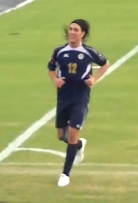 Angel Guirado playing for the Philippine national team against Sri Lanka in a 3 July 2017 FIFA World Cup 2014 qualifying match.